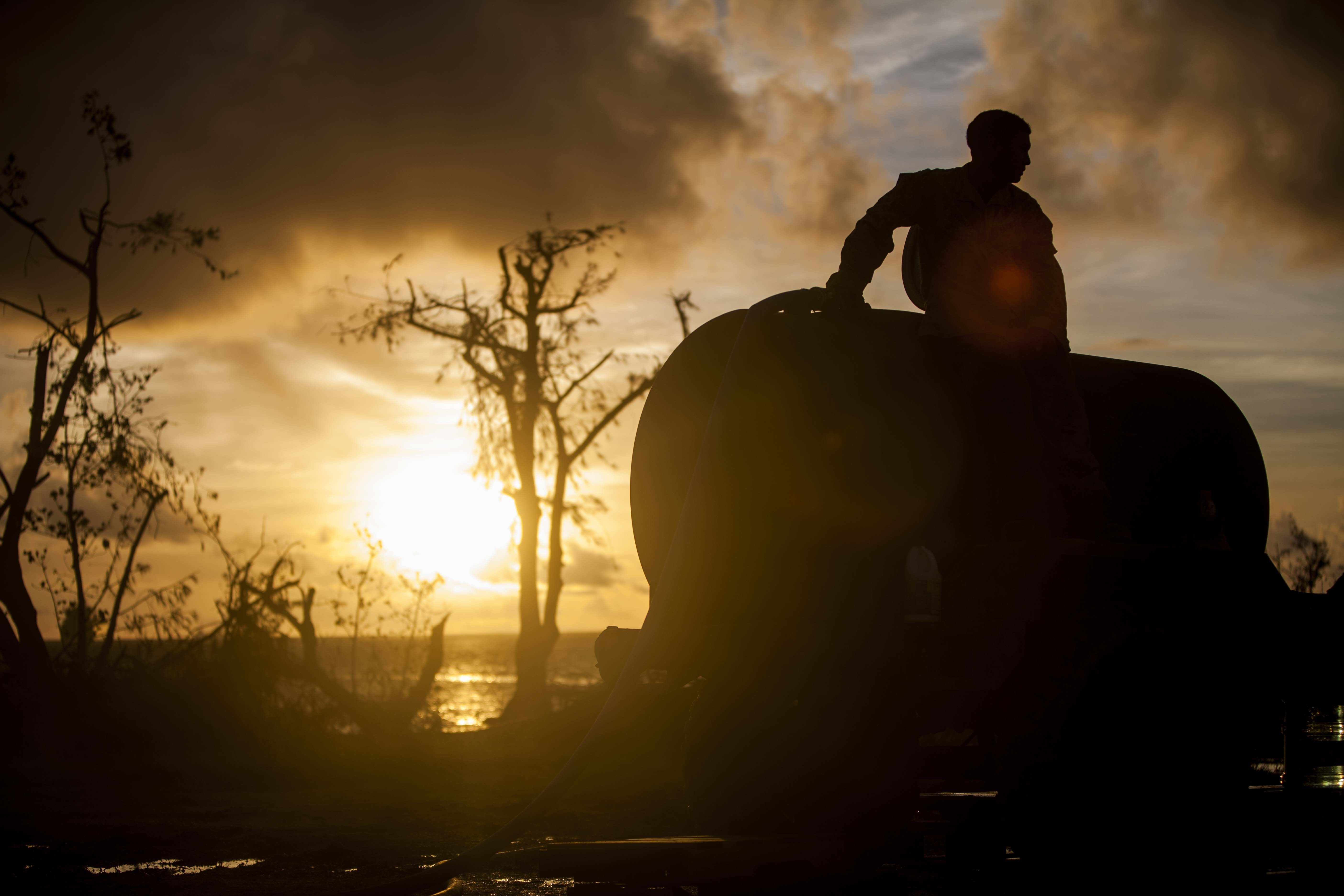 U.S. Marine Lance Cpl. Riley Remoket, with Combat Logistics Battalion 31, 31st Marine Expeditionary Unit, fills a water bull at a water distribution site during typhoon relief efforts in Saipan, Aug. 19, 2015. The Marines with Echo Company, Battalion Landing Team 2nd Battalion, 5th Marines, 31st MEU and CLB 31, 31st MEU, assisted the locals of Saipan by producing and distributing potable water. The Marines and sailors of the 31st MEU were conducting training near the Mariana Islands when they were redirected to Saipan after the island was struck by Typhoon Soudelor Aug. 2-3. (U.S. Marine Corps photo by Gunnery Sgt. Ismael Pena/Released)